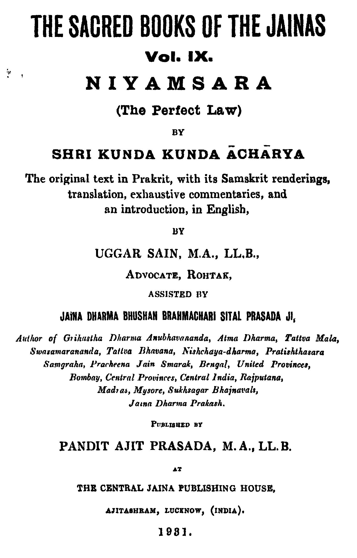 Sacred Book of the Jainas- Niyamsara (The Perfect Law)